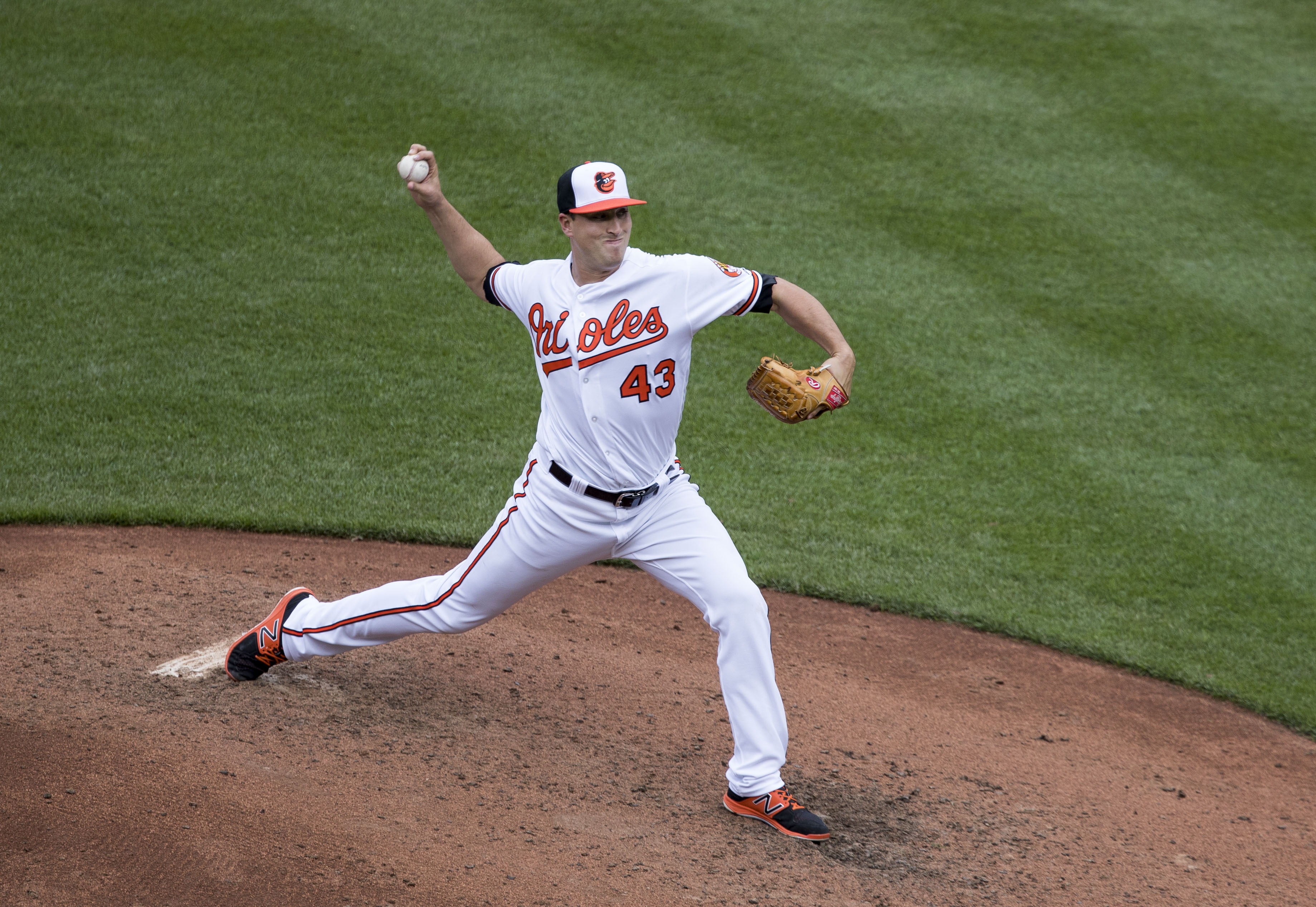 Stefan Crichton of the Baltimore Orioles pitches against the Boston Red Sox at Oriole Park at Camden Yards on April 23, 2017 in Baltimore, Maryland.